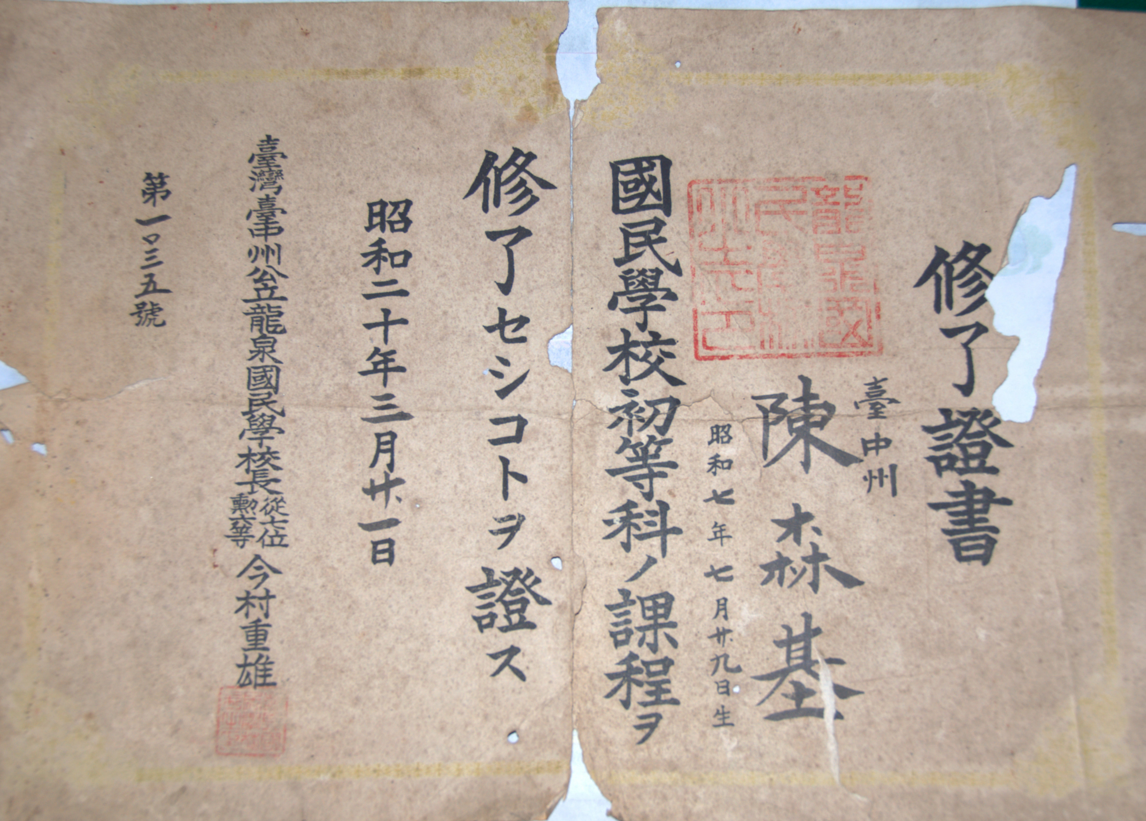 Diploma for Long-Cyuan Elementary School in Taiwan under Japanese rule.